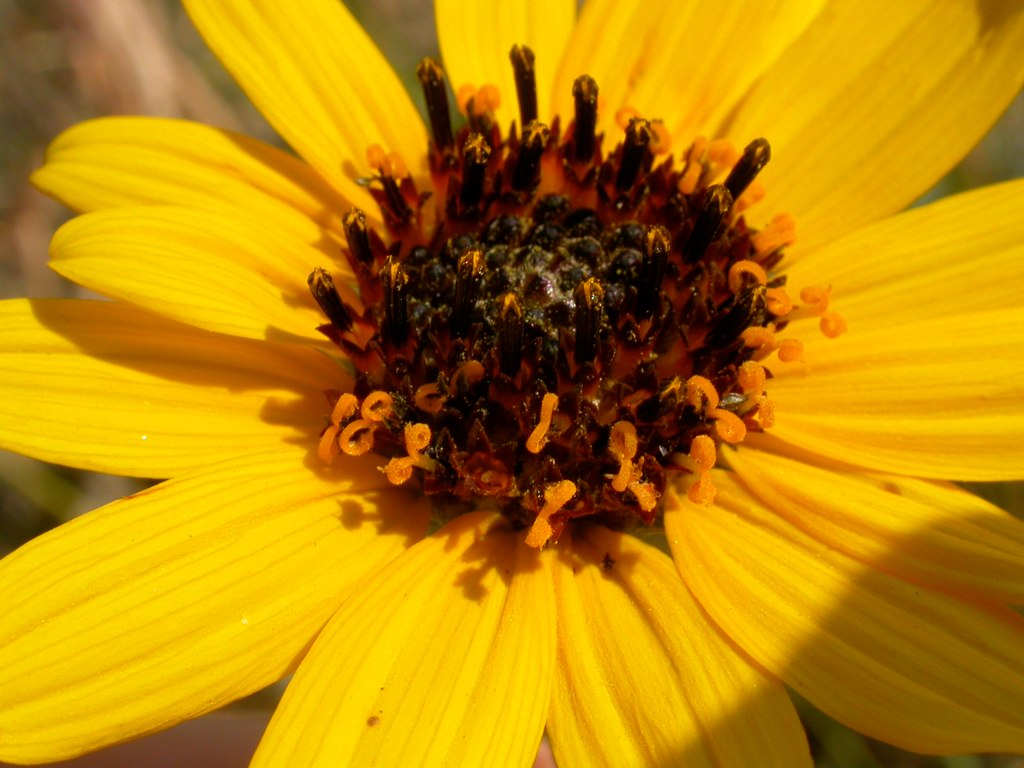 The lobes of the disk flowers are reddish and distinctly darker than the yellowish ray flowers.